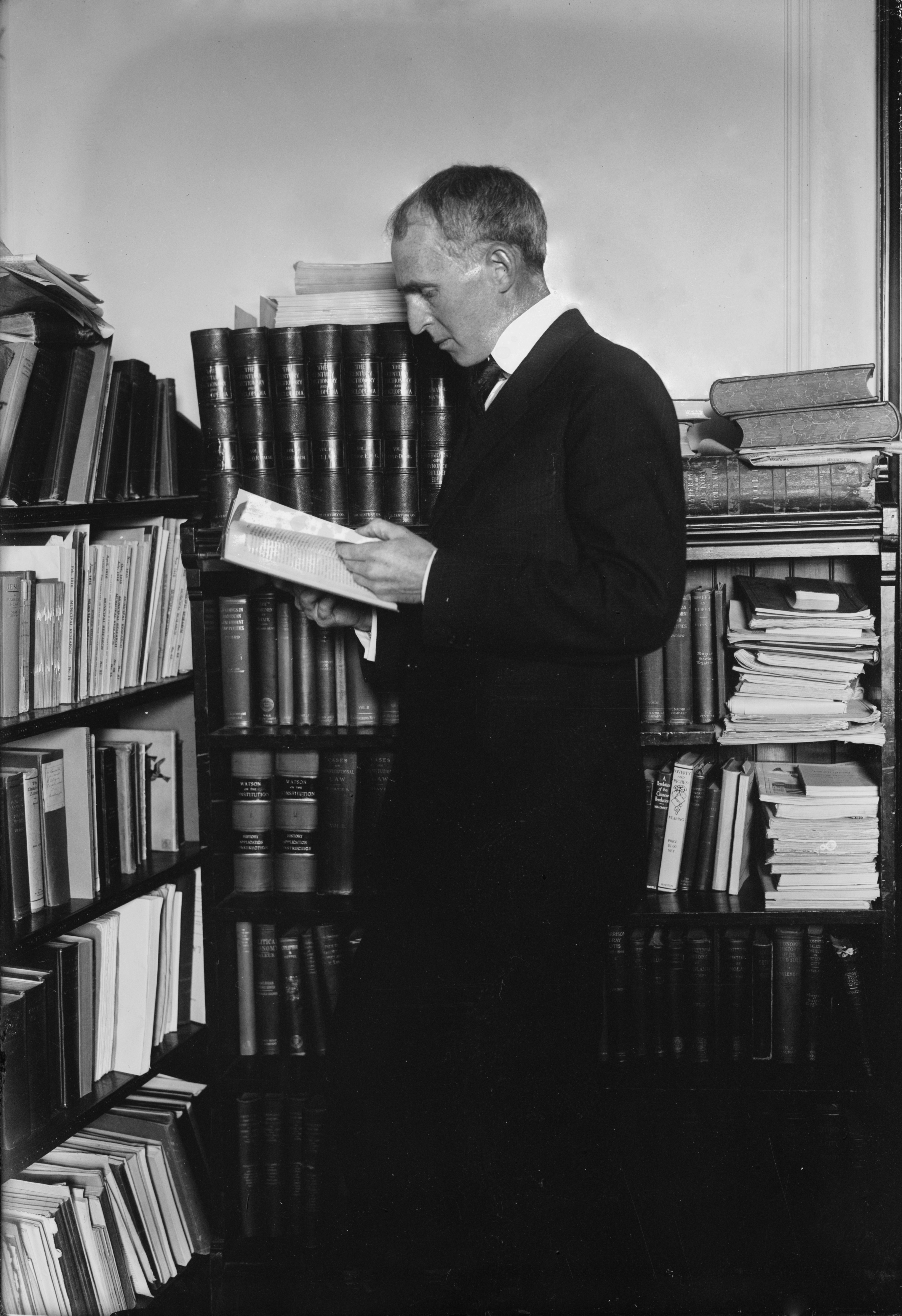 Charles Austin Beard in 1917